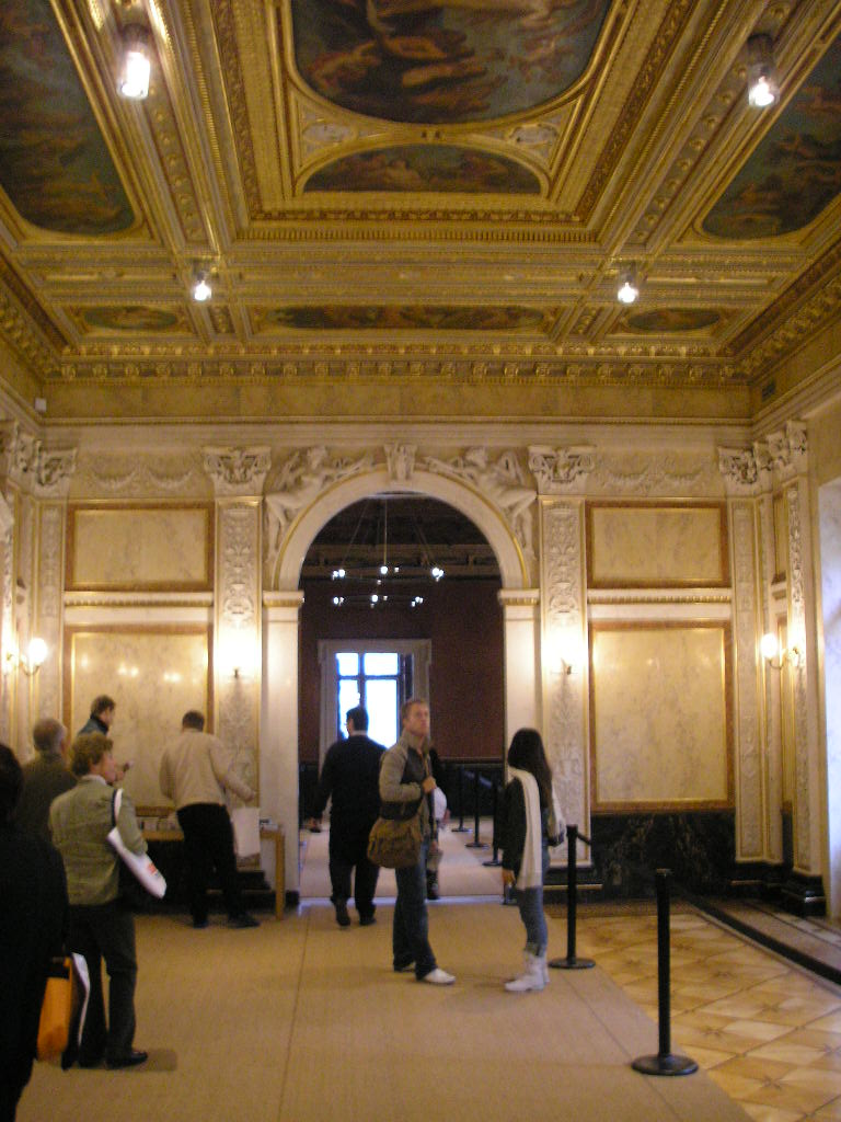 Interior view of the Palais Epstein close to the parliament building in Vienna